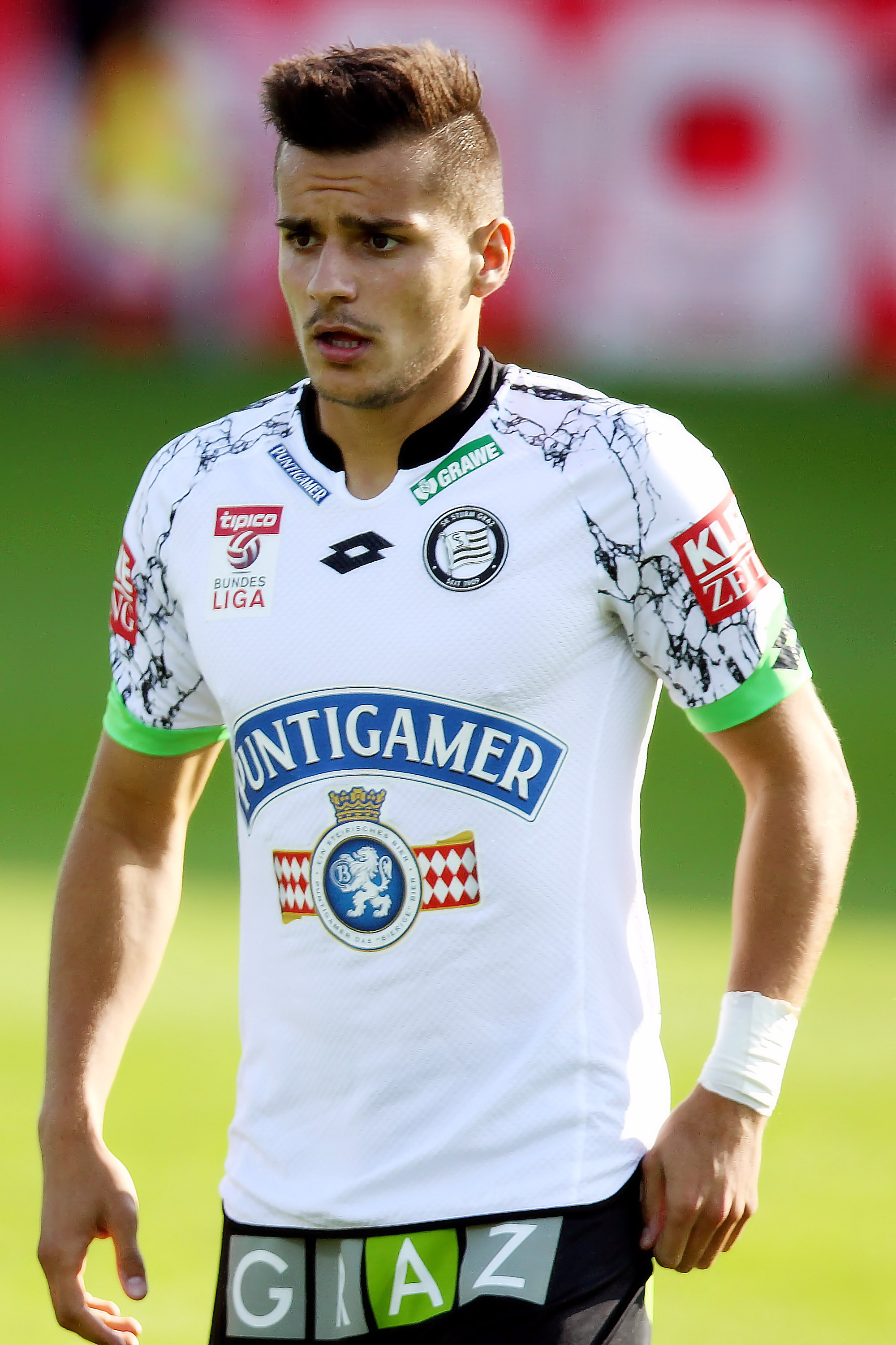 Match of the Austrian Football Bundesliga – SV Mattersburg (green shirts) vs. SK Sturm Graz (white shirts) on 2015-09-13 in Pappelstadion, Mattersburg – The photo shows Kristijan Dobras